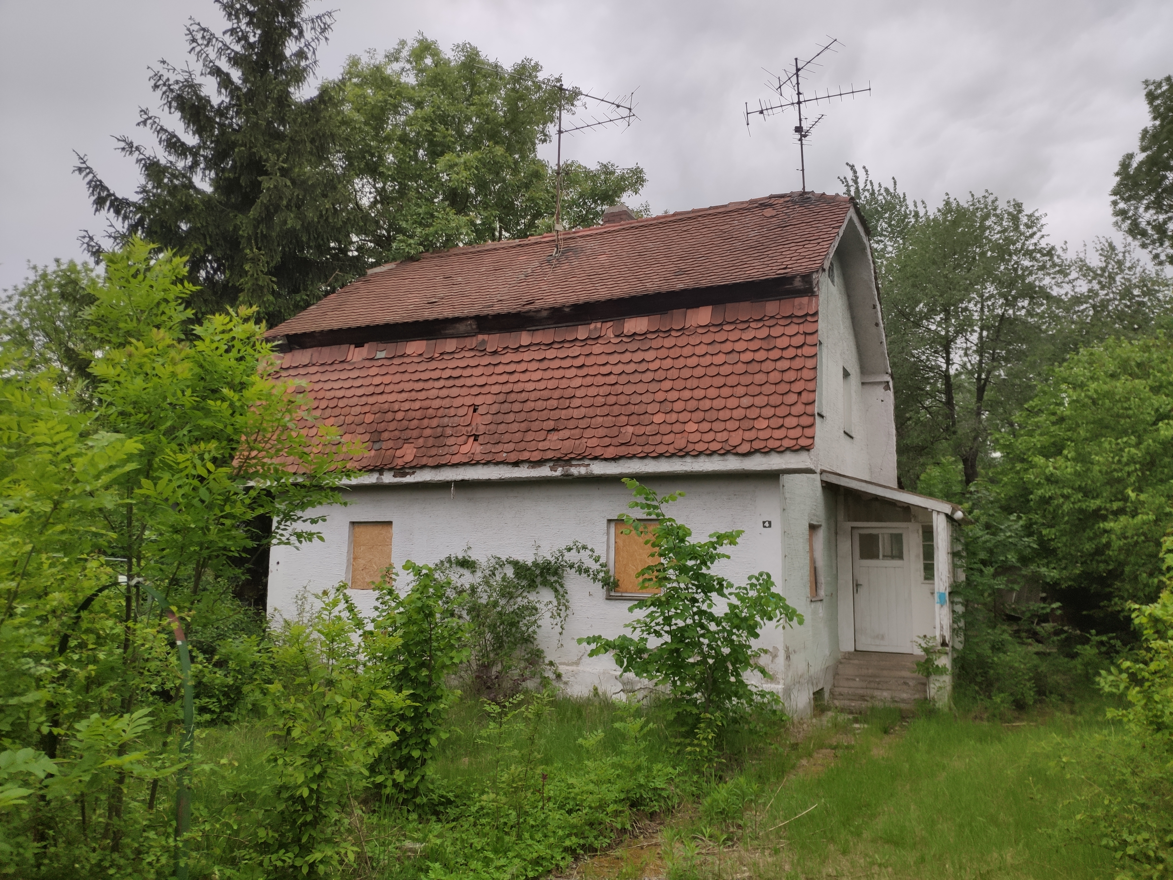 Eggarten-Siedlung